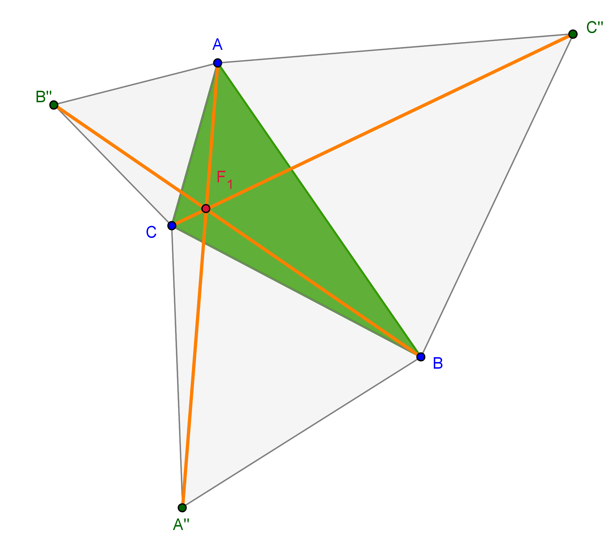 Fermat's point, triangles outward